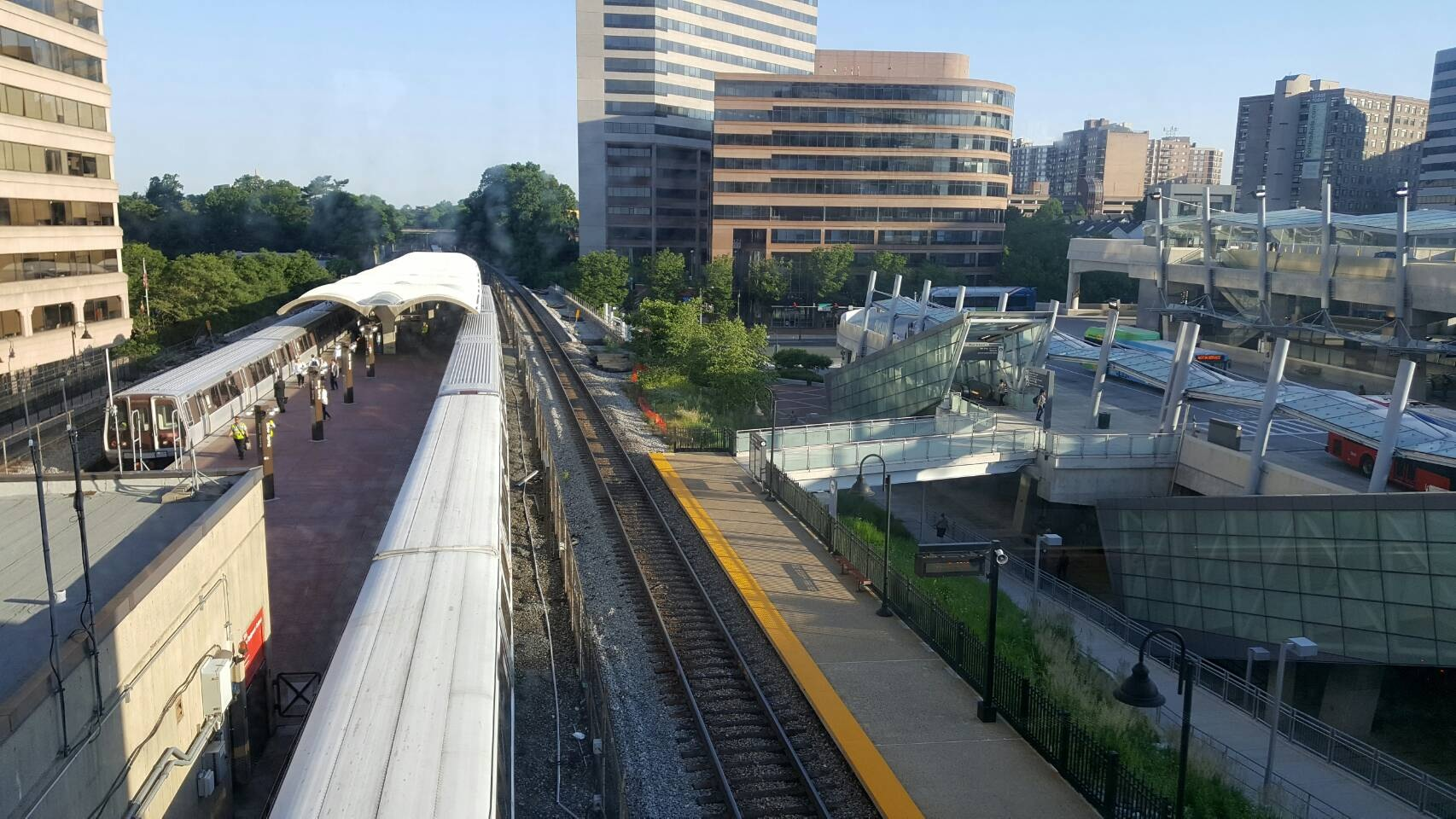 Silver Spring station (Thanks to E's lens)